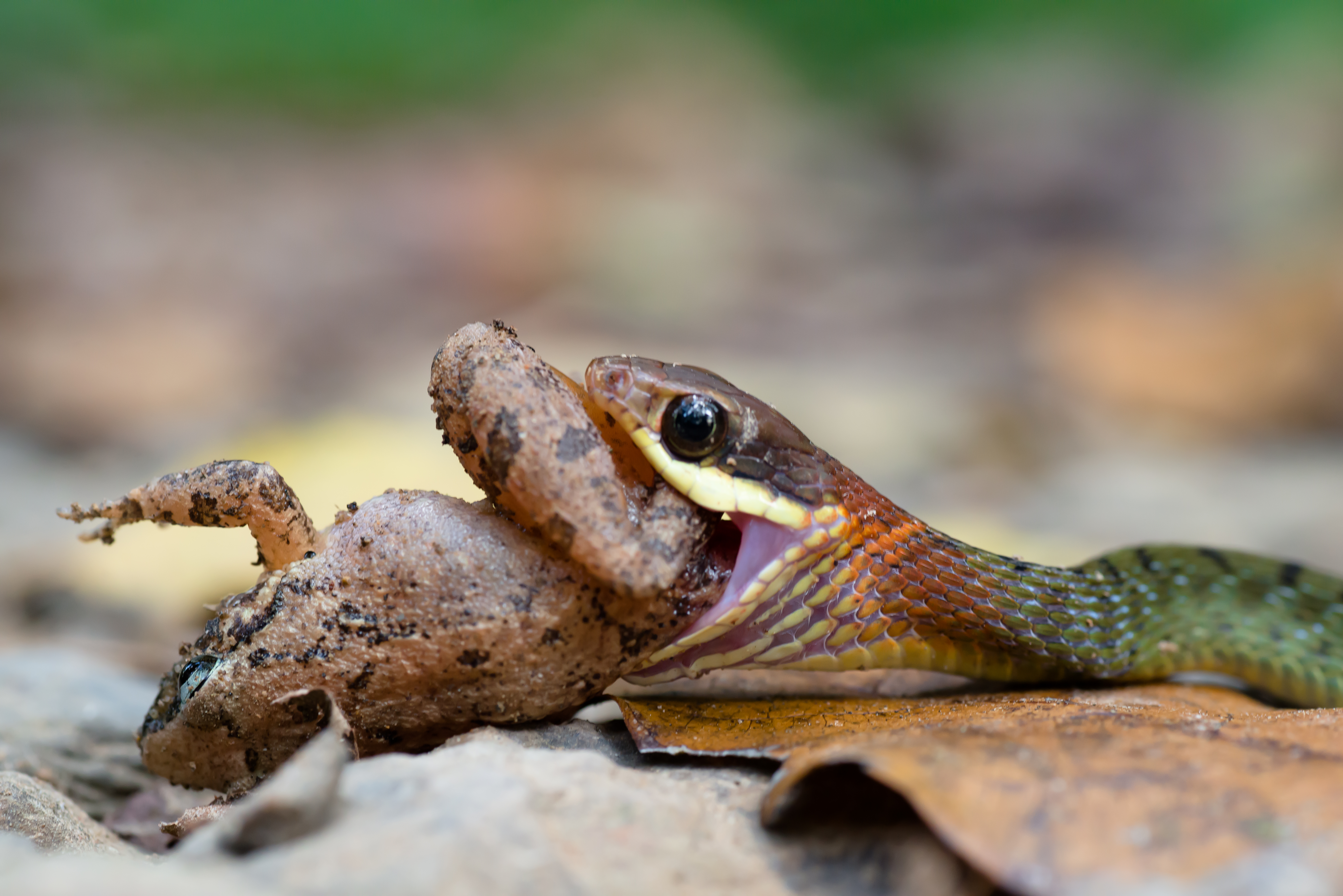 Rhabdophis chrysargos, specklebelly keelback. Photo by Thai National Parks. Photo taken before the third river crossing after Ban Krang campsite towards Phanoen Thung campsite.